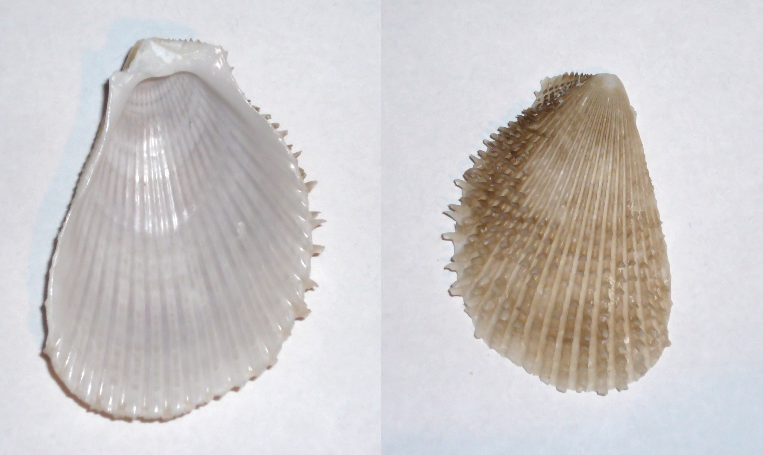 Lima lima (Linnaeus 1758). Family Limidae. From Italy, Liguria